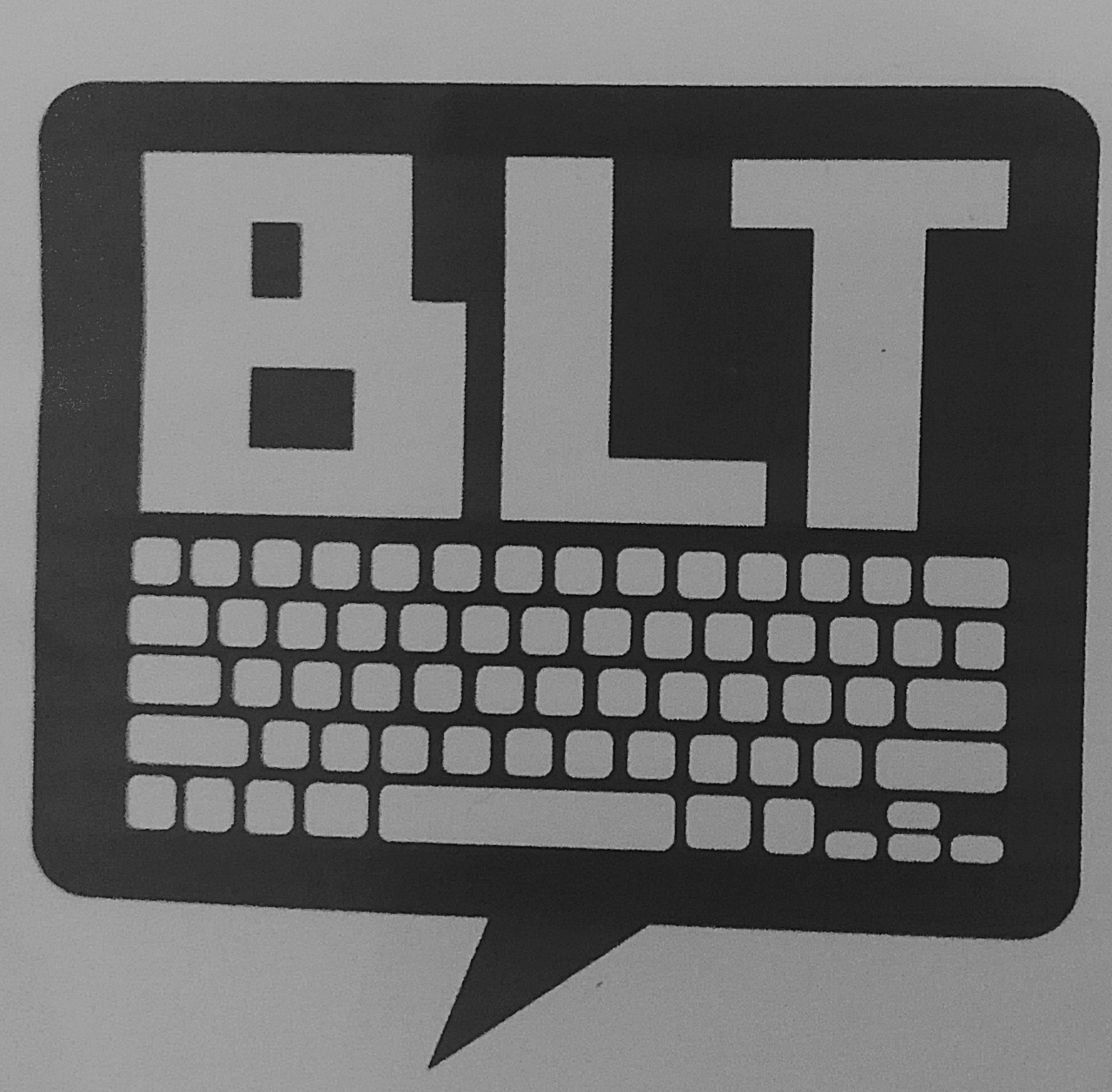 This file represents the Black Lunch Table logo